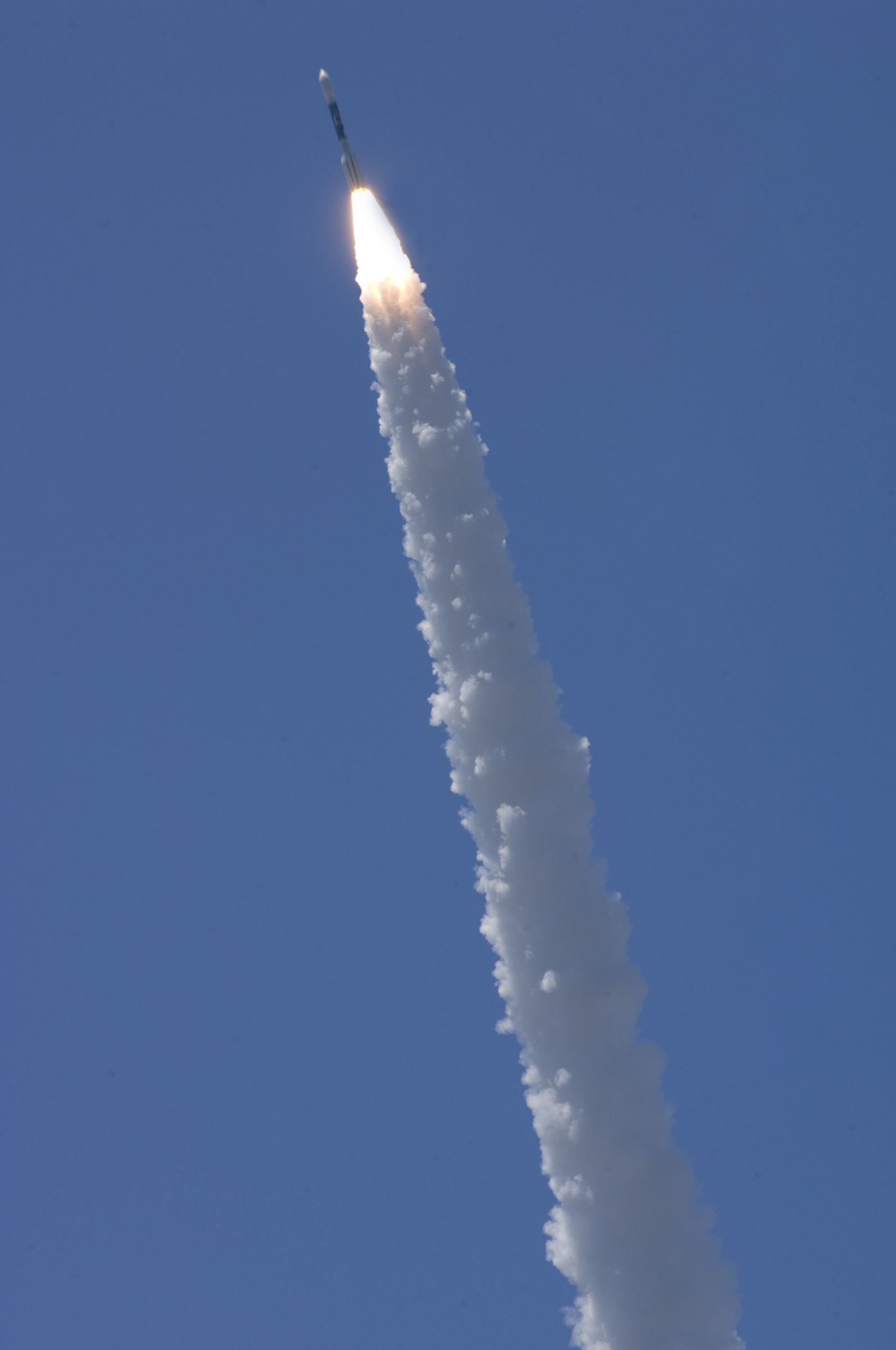 A Delta II rocket successfully lifted off at 1:24 p.m. May 5 from Space Launch Complex-2 at Vandenberg Air Force Base, Calif. The rocket carried an experimental satellite for the Missile Defense Agency's Space Tracking and Surveillance System Advanced Technology Risk Reduction mission. (U.S. Air Force photo/Airman 1st Class Heather R. Shaw)